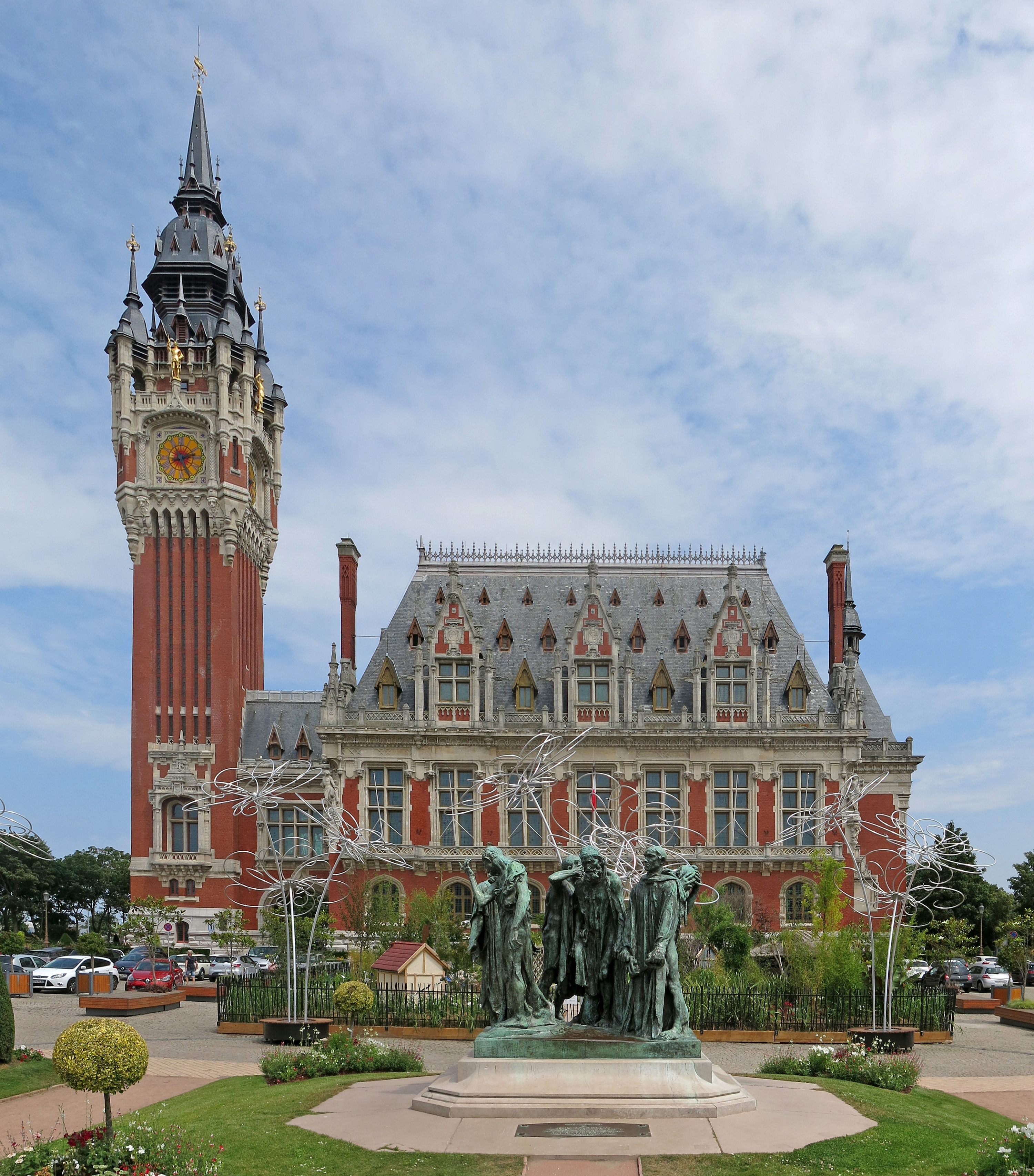 Photography of the of the sculpture The Burghers of Calais in front of the town hall of Calais